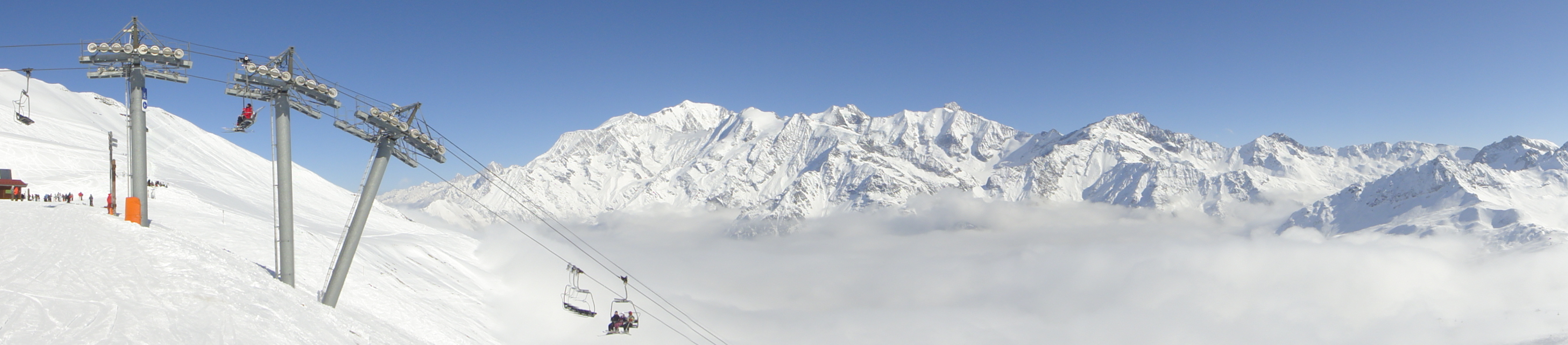 Chairlift "Les Tierces" TSD4, Les Contamines-Montjoie, and Mont Blanc range.